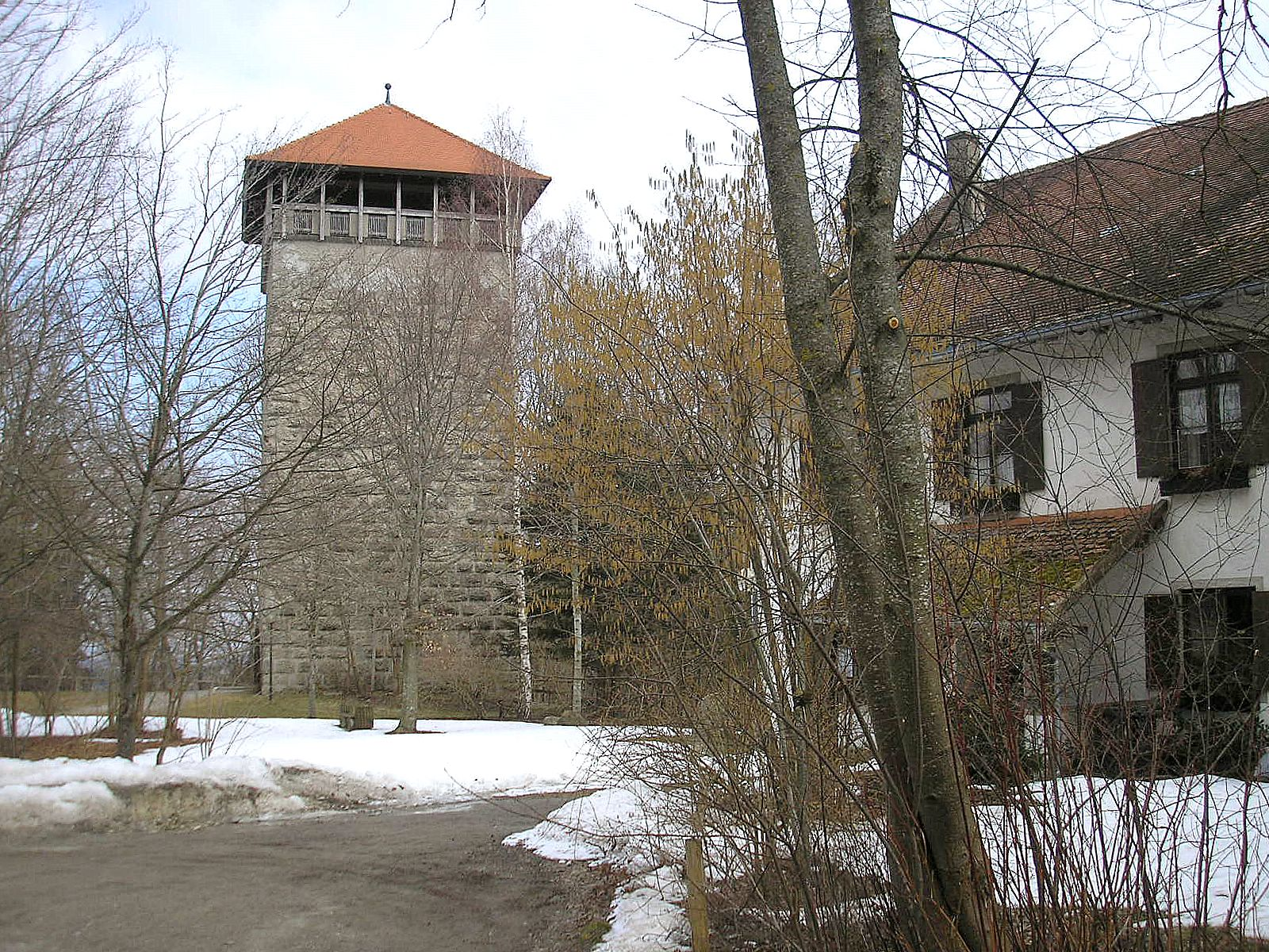 Kemnat castle (Kleinkemnat, Stadt Kaufbeuren, Allbäu, Bavaria, Germany). The central castle, looking east